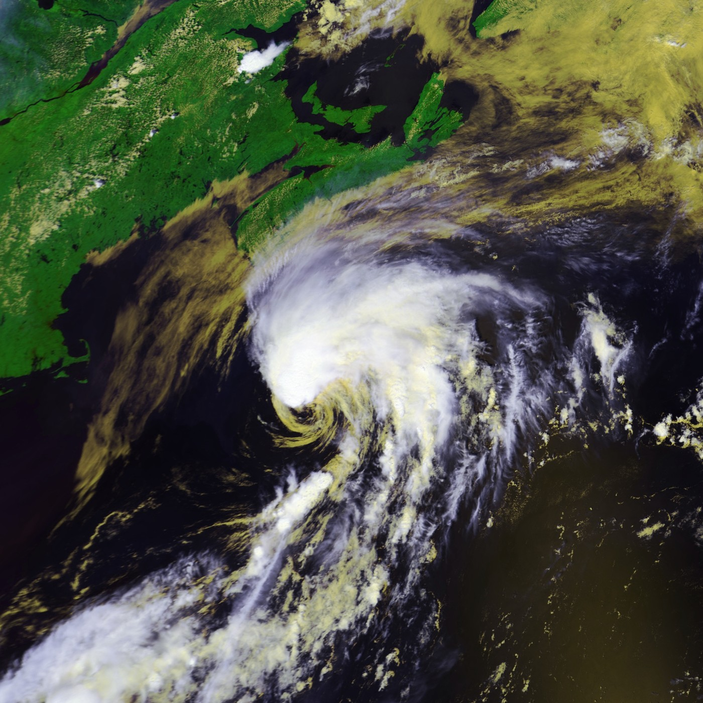 Unnamed Tropical Storm on July 17 at approximately 1653 UTC. This image was produced from data from NOAA-18, provided by NOAA. The storm's maximum sustained winds were near 50 mph at the time this image was taken.